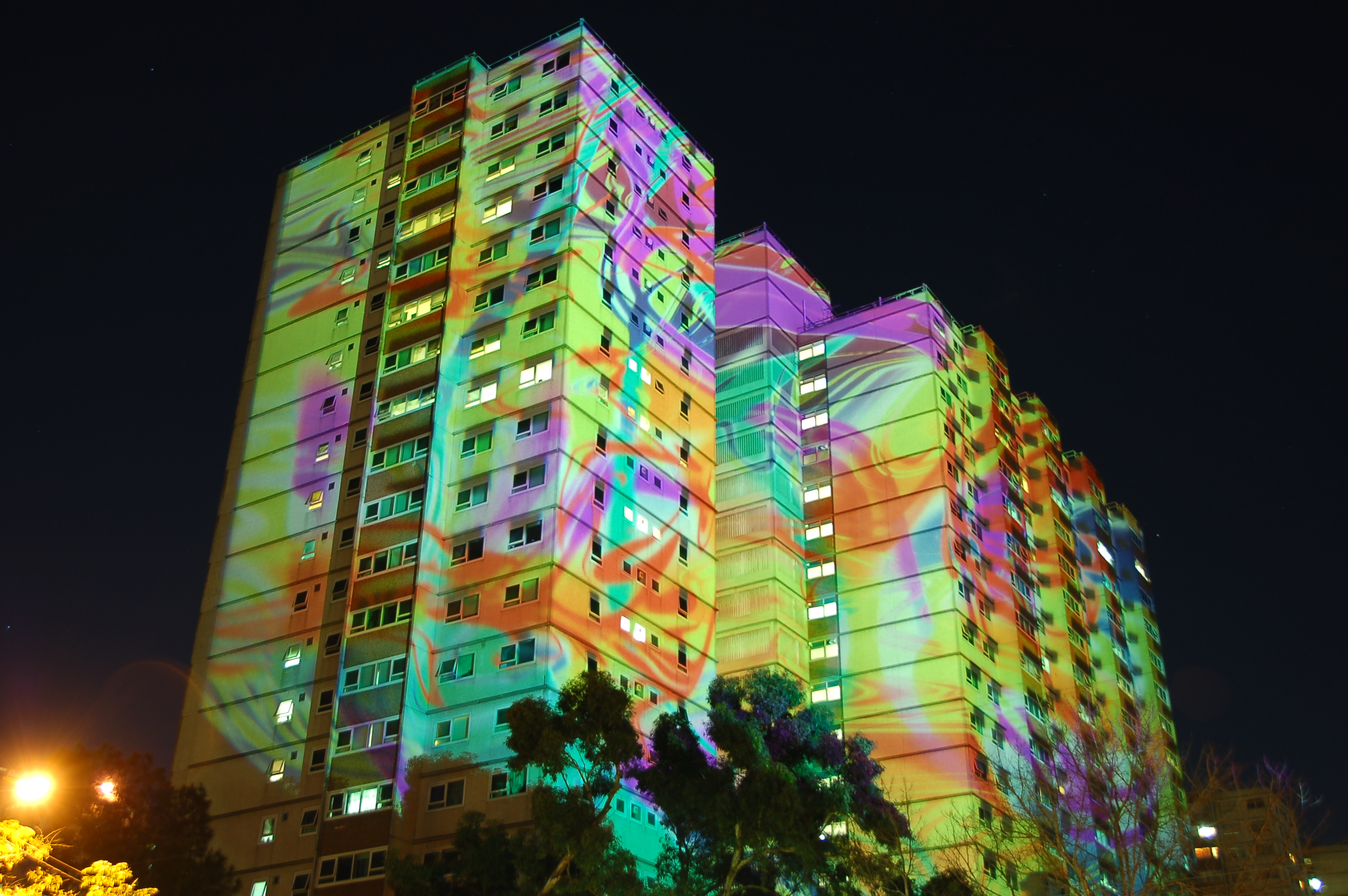 Gertrude Street Projection Festival 2013